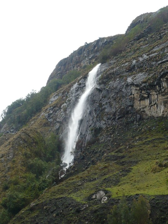 Located in Huallin, 12 km of Chacas, with a drop of 30 m. Special Canyoning and rappelling practice.